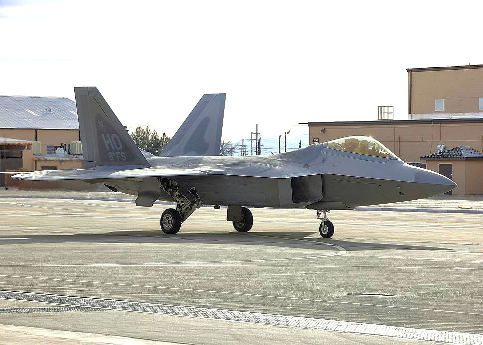 Lt. Col. Craig Baker, 8th FS commander, taxis F-22A block 20 no. 04-4077 assigned to the 8th FS on the afternoon of December 21st, 2009. [USAF photo by SrA. John D. Strong II]